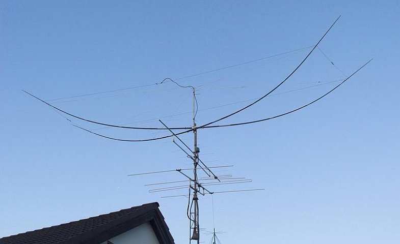 A Moxon-Antenna for the 20 m Ham-Radio Band. Made from four fishing-poles, wire and small rope.